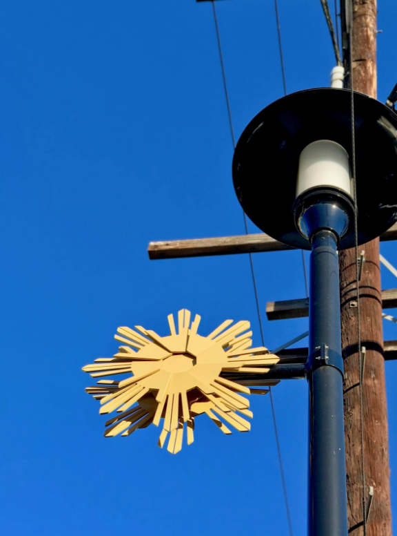 One of many Hi-Fi Streetlight Art. This art is titled “Kapwa: Shared Humanity - ALL HANDS IN.” In 2016, Roel Punzalan created the artwork, adding the description that “The Filipino Sun, a symbol of unity, is created by stacking hands in a team huddle, a gesture of unity.”